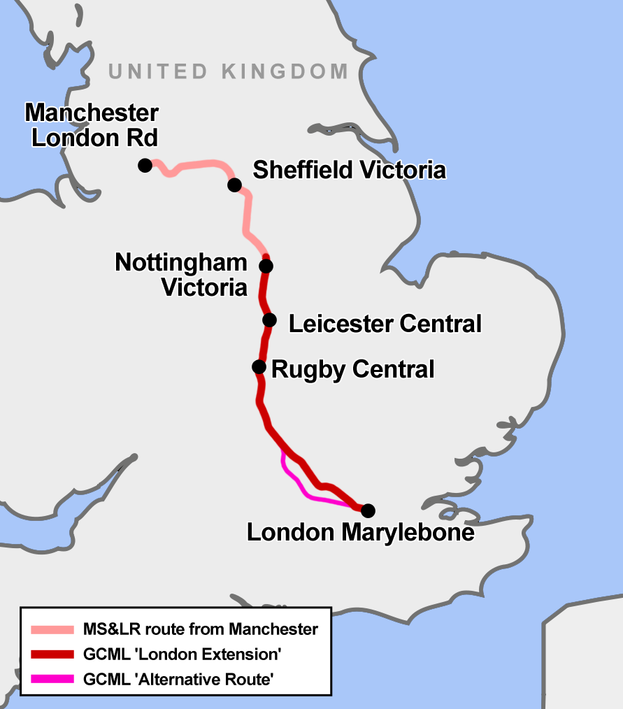 Map of England showing the route of the former Great Central Main Line, a high-speed railway line which opened in 1899 between Sheffield and London. It was designed by the railway baron Edward Watkin to a continental European specification in anticipation of the French trains which Watkin confidently believed would one day run on his railway. His 1880s Channel tunnel project failed but his railway ran express trains to London until 1966, when it was closed during the Beeching cuts. A short section of the route is to be re-opened for the planned HS2 line.